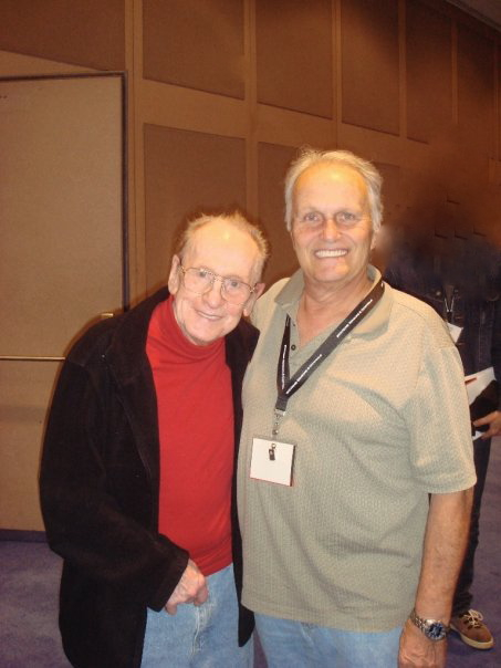 New York AES